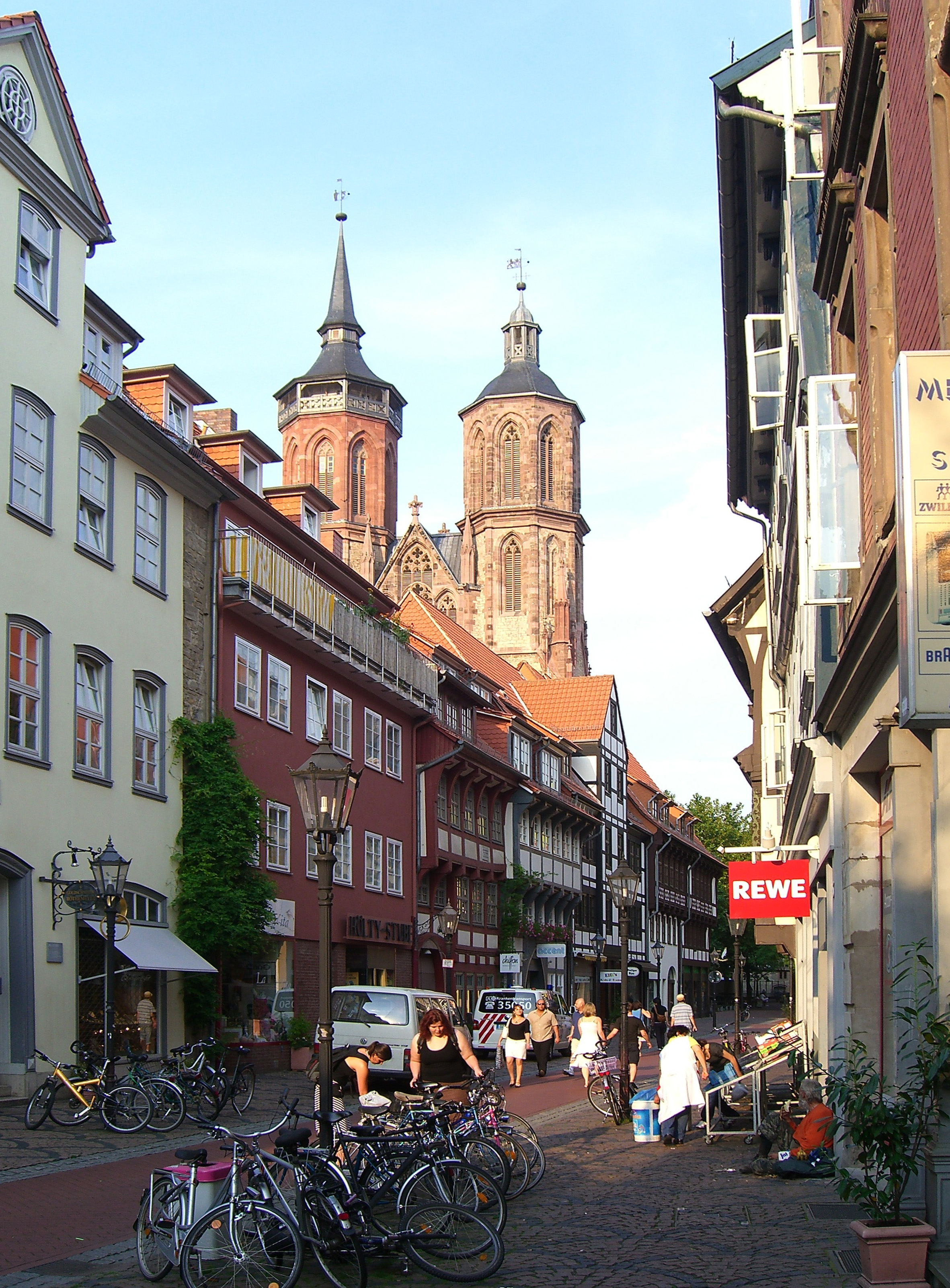 Johannis Street in Göttingen.